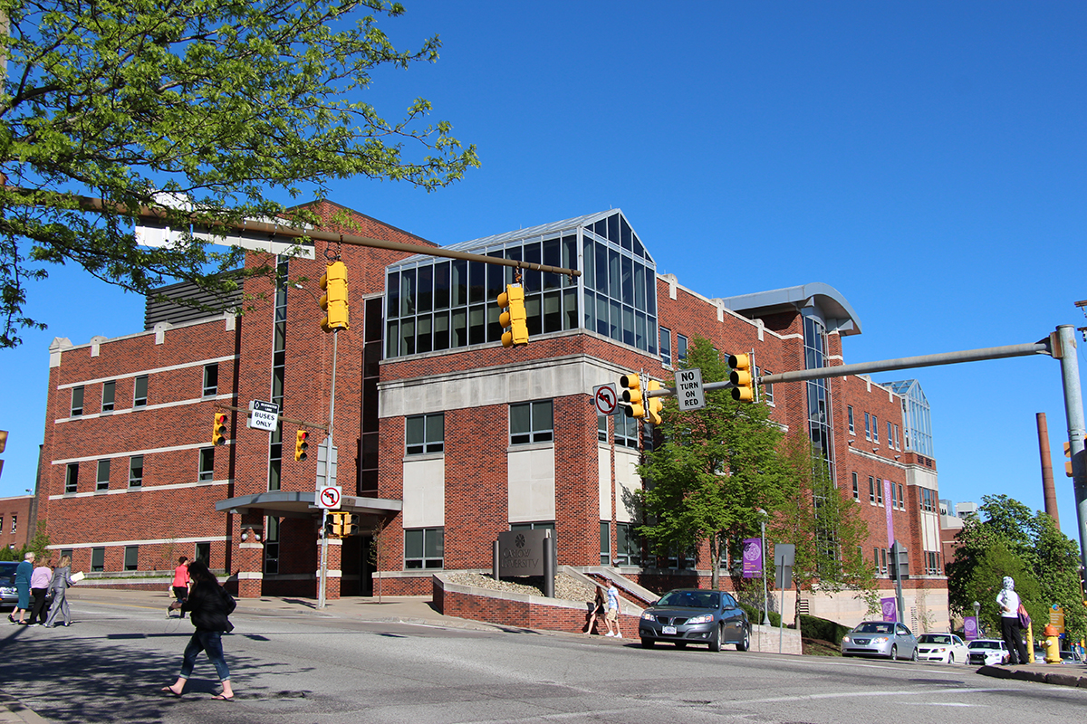 Carlow University A J Palumbo Hall of Science and Technology main entrance